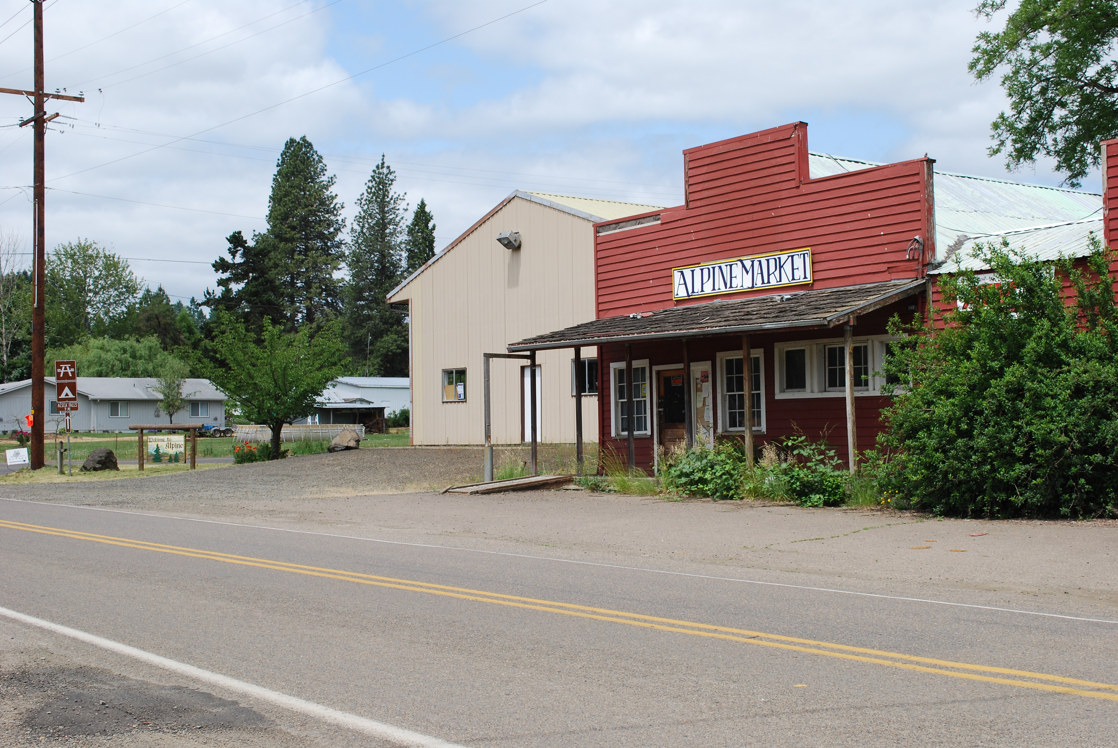 Local store and RFD Station in Alpine